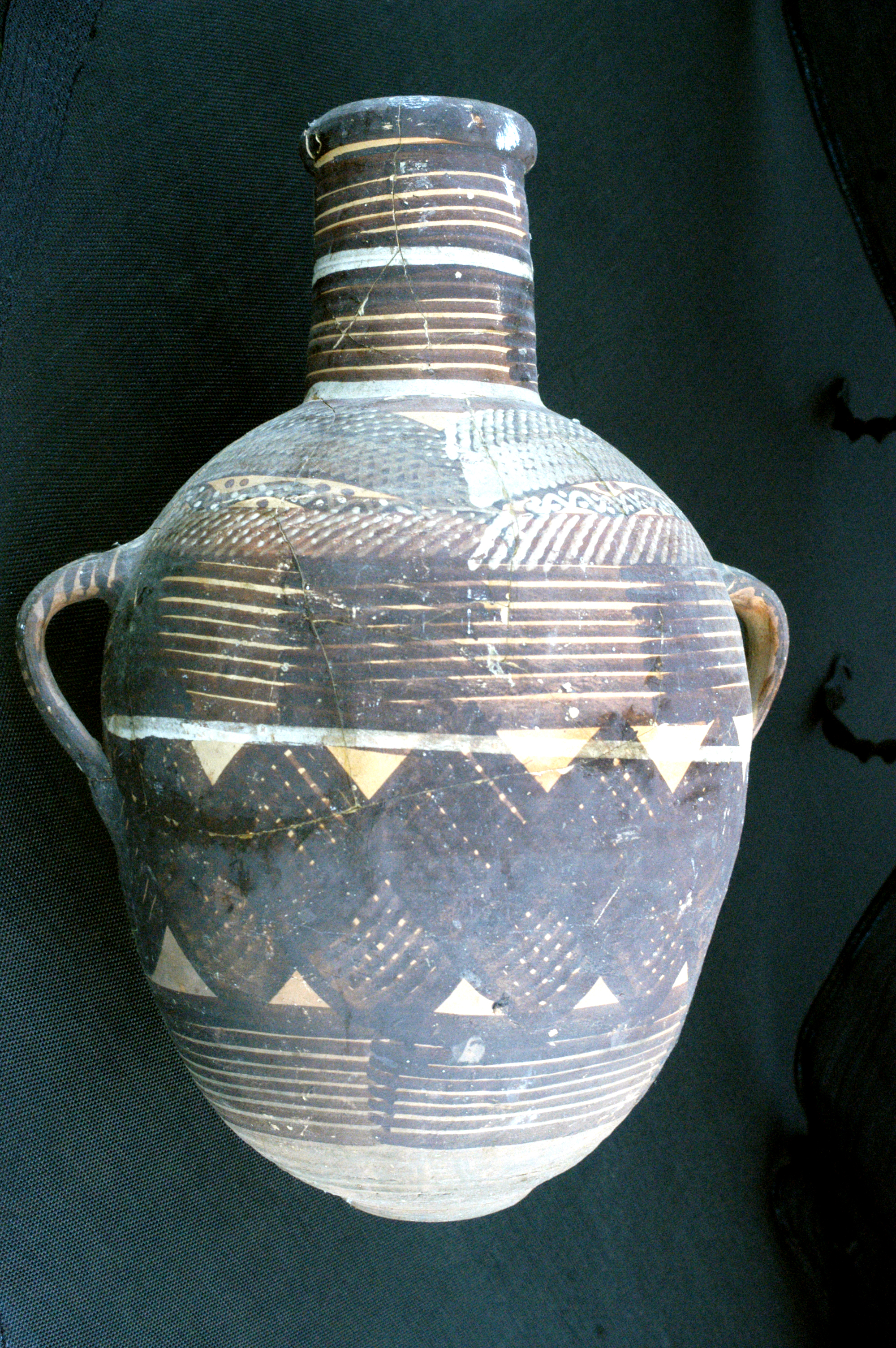 Water pot made in Nabtiyet, Lebanon. 1961. 30 inches tall.